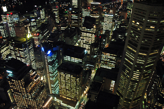 Sydney viewed from the Sydney Tower, March 2007